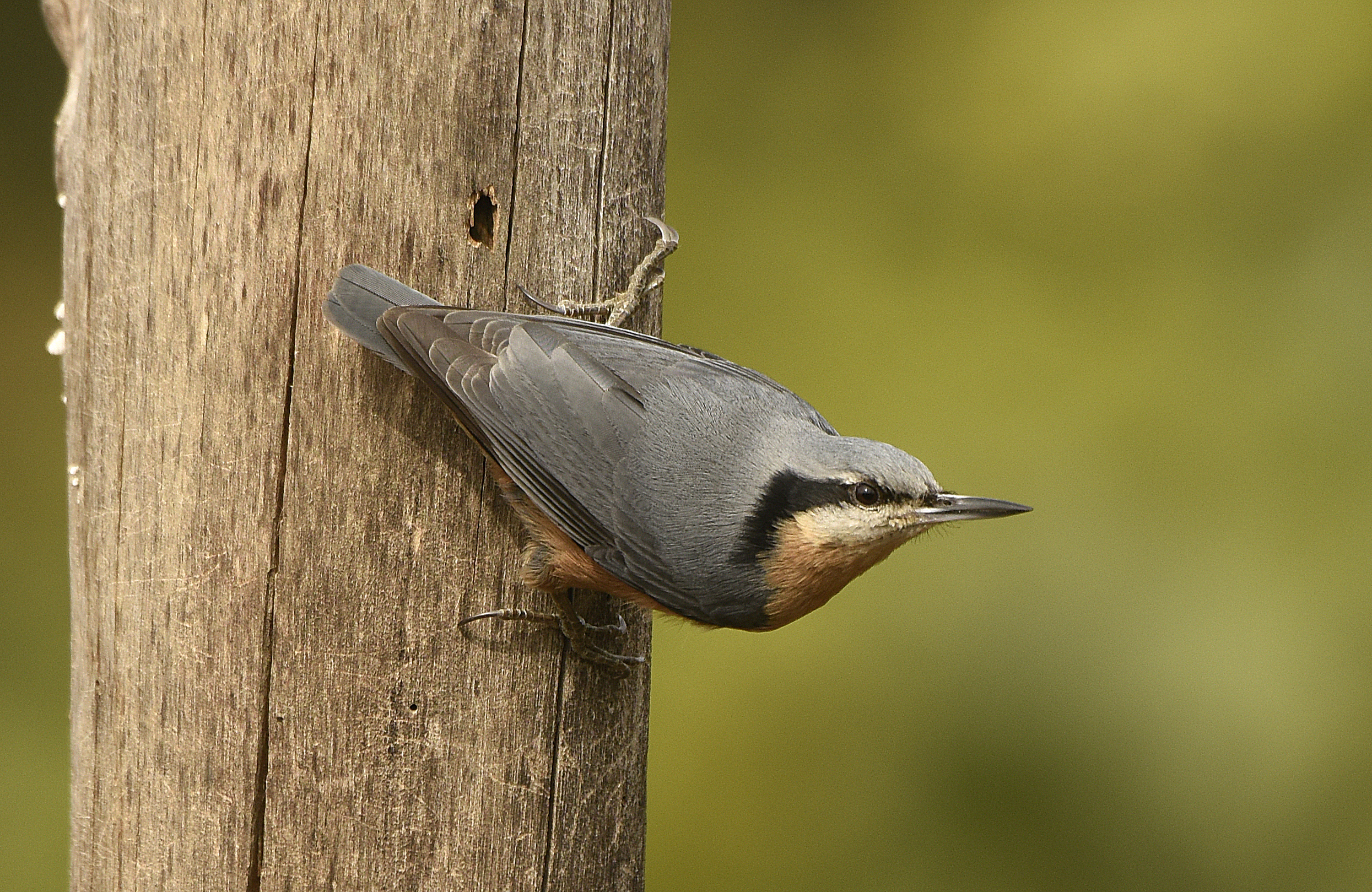 Ghatgarh, Nainital, Uttarakhand, India